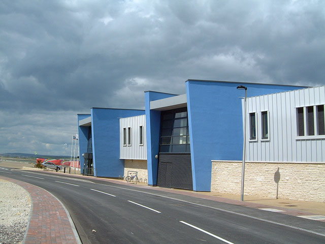 National Sailing centre. This is the brand new national sailing centre built in the hope that the Olympic bid will be successful.